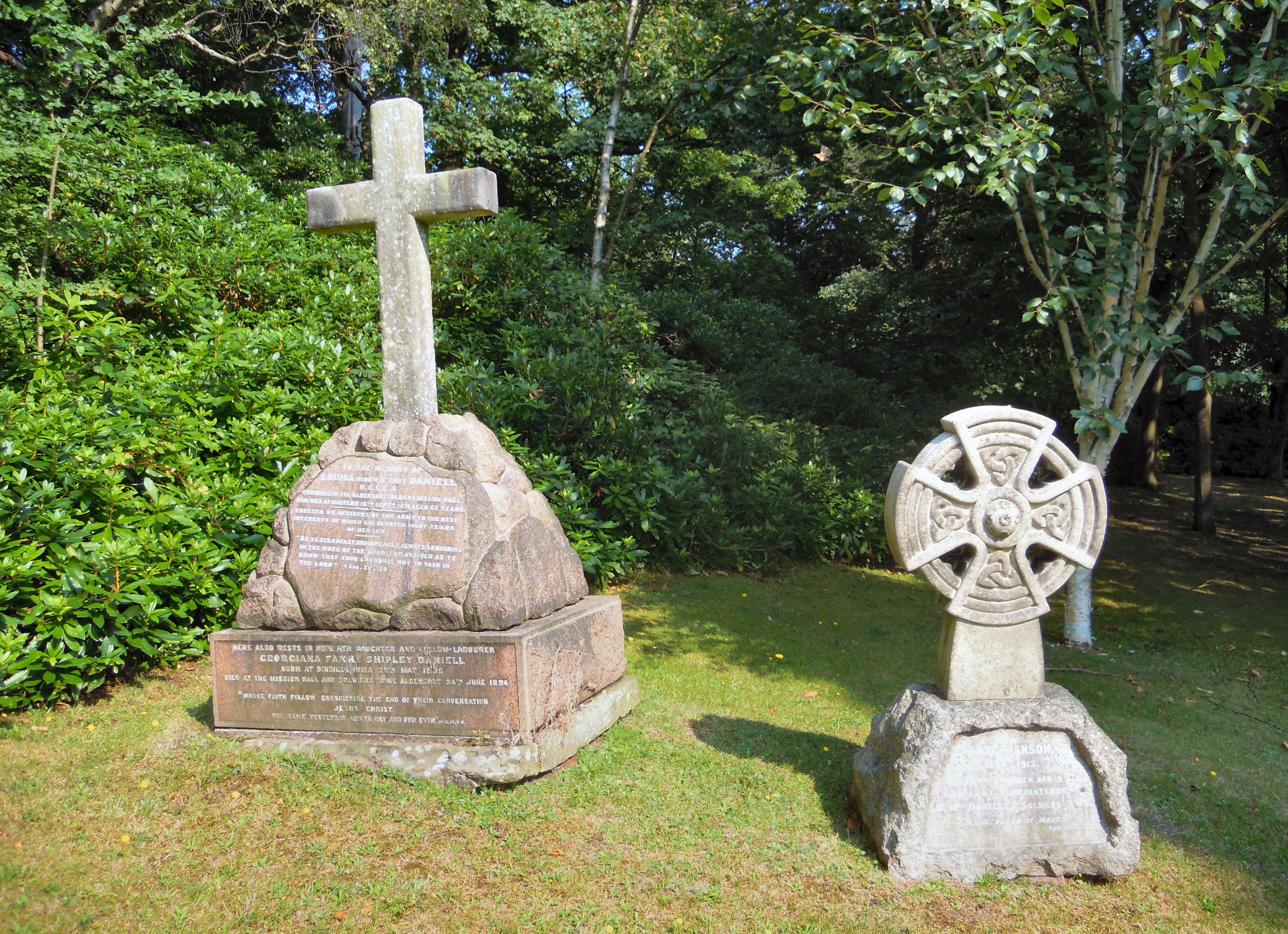 Graves of Mrs Louisa Daniell, Miss Georgina Daniell and Miss Kate Hanson in Aldershot Military Cemetery